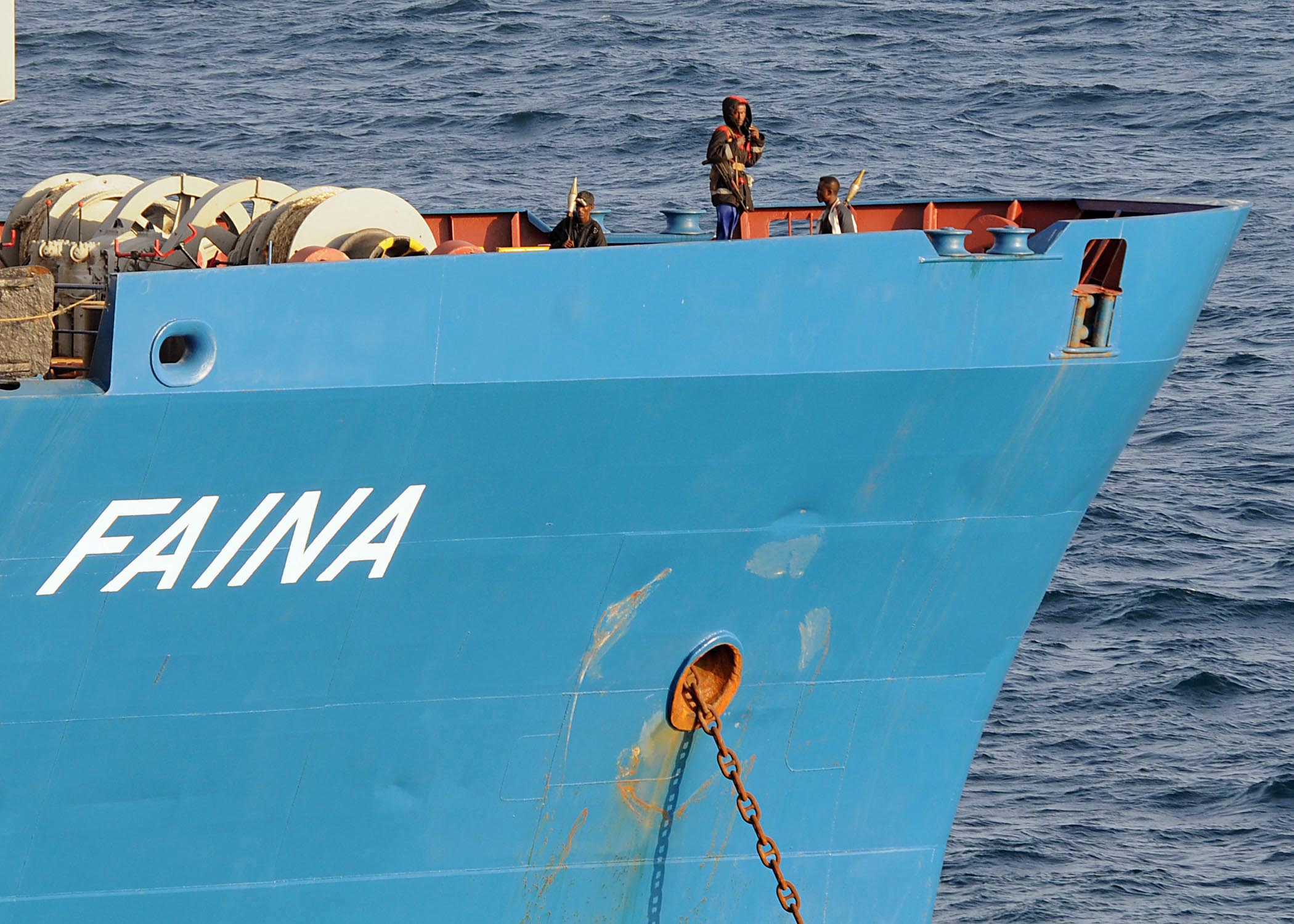 The Somali pirates holding the merchant vessel MV Faina stand on the deck of the ship after a U.S. Navy request to check on the health and welfare of the ships crew. The Belize-flagged cargo ship, owned and operated by Kaalbye Shipping, Ukraine, was seized by pirates on Sept. 25 and forced to proceed to anchorage off the Somali coast. The ship is carrying a cargo of Ukrainian T-72 tanks and related military equipment.